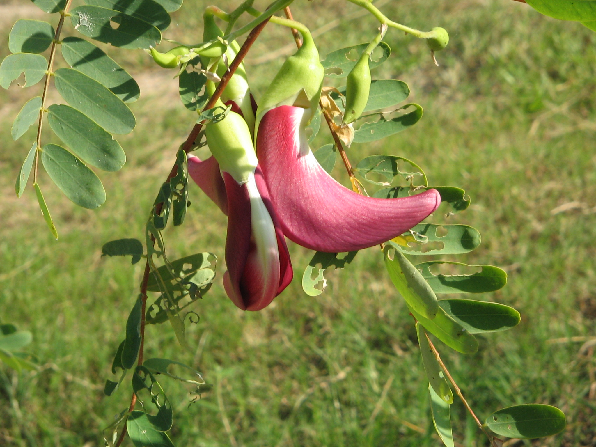 Sesbania grandiflora red